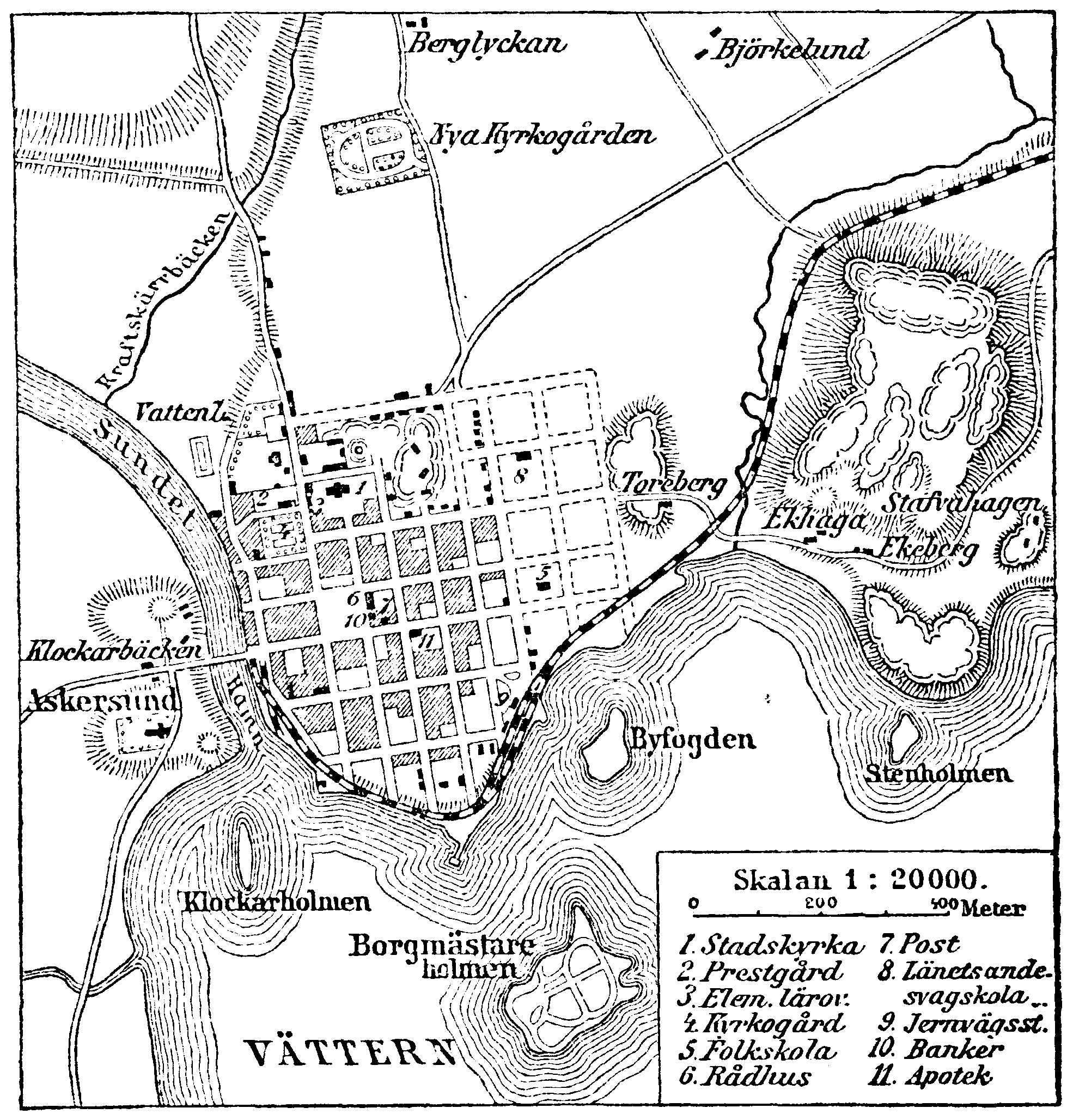 Askersund, Sweden, town map about 1910.